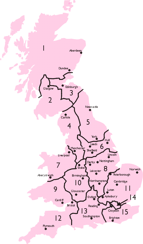 Map of Area Electricity Boards established by the Electricity Act 1947. Key: North of Scotland Hydro-Electric Board South West Scotland Electricity Board South East Scotland Electricity Board North Western Electricity Board North Eastern Electricity Board Yorkshire Electricity Board Merseyside and North Wales Electricity Board East Midlands Electricity Board South Wales Electricity Board Midlands Electricity Board Eastern Electricity Board South Western Electricity Board Southern Electricity Board London Electricity Board South Eastern Electricity Board